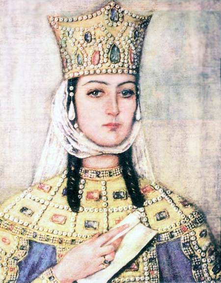 Queen Thamar of Kingdom of Georgia (reign 12th/13th c.)